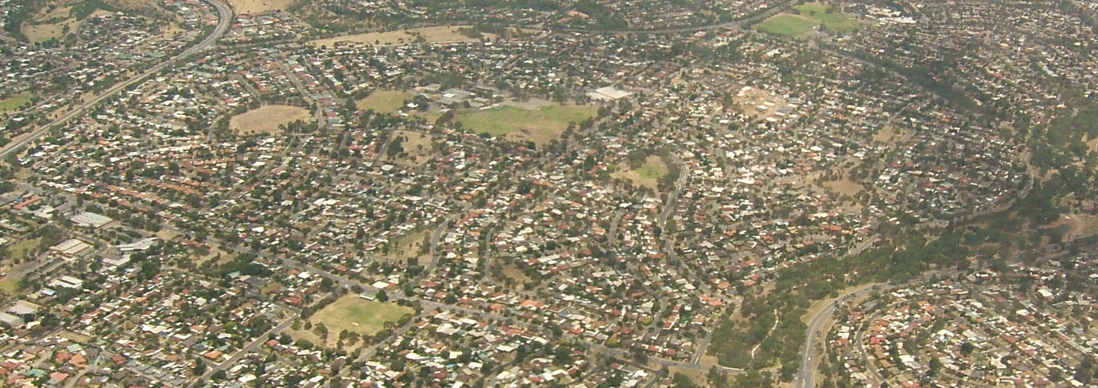 Modbury Heights, Adelaide